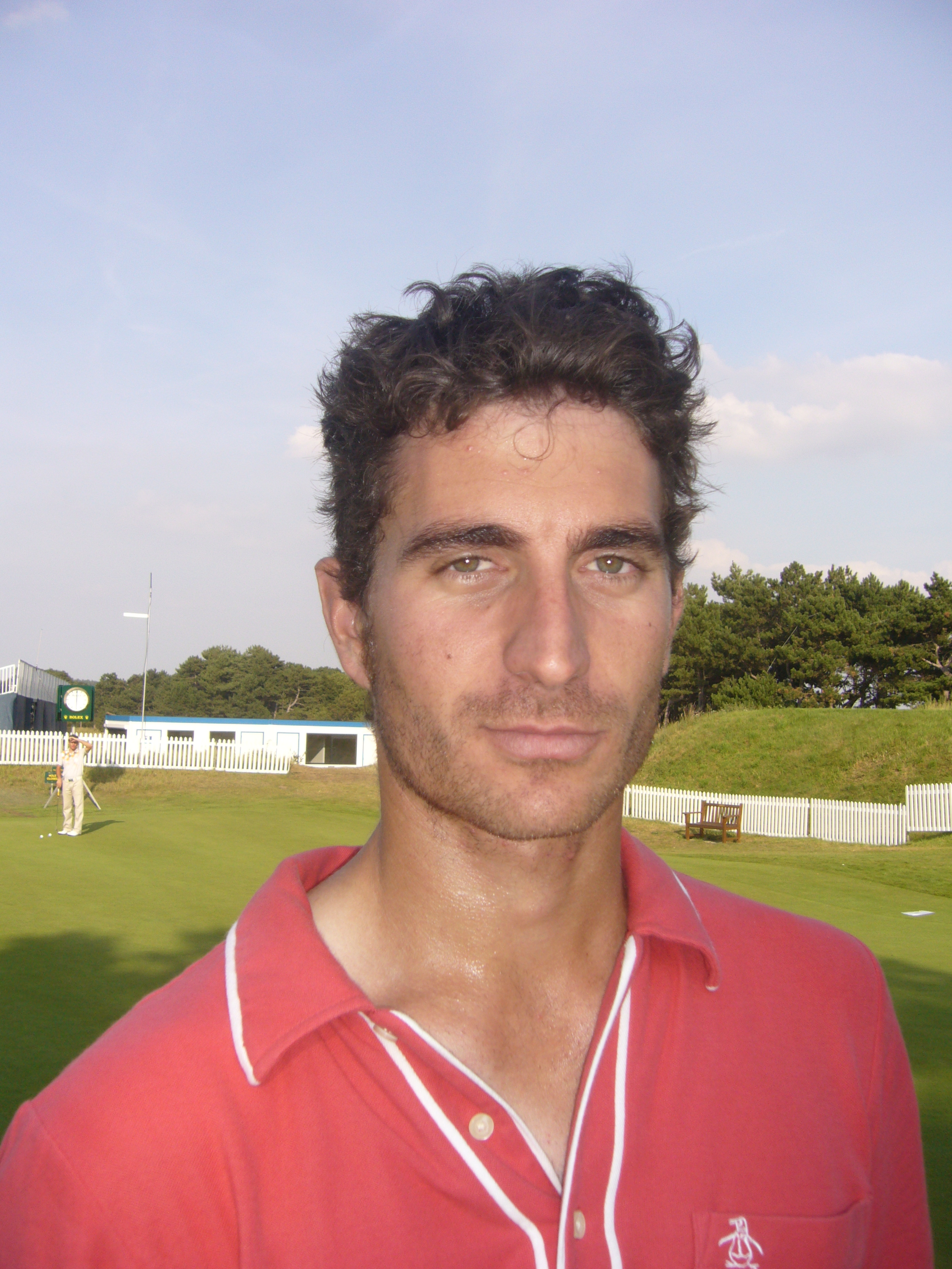 Alejandro Canizeres, Spanish professional golfer